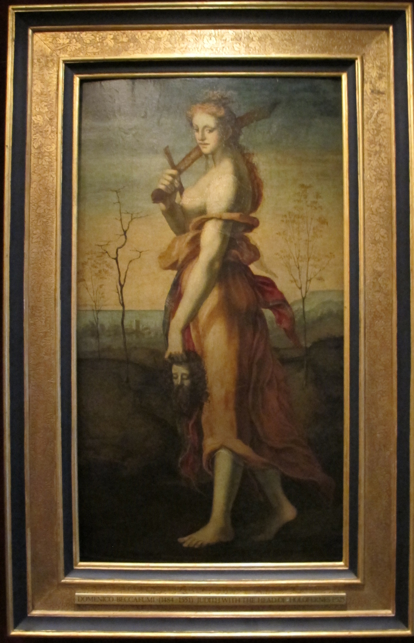 Judith with the head of Holoferneslabel QS:Lit,"Giuditta con la tesat di oloferne" label QS:Len,"Judith with the head of Holofernes"